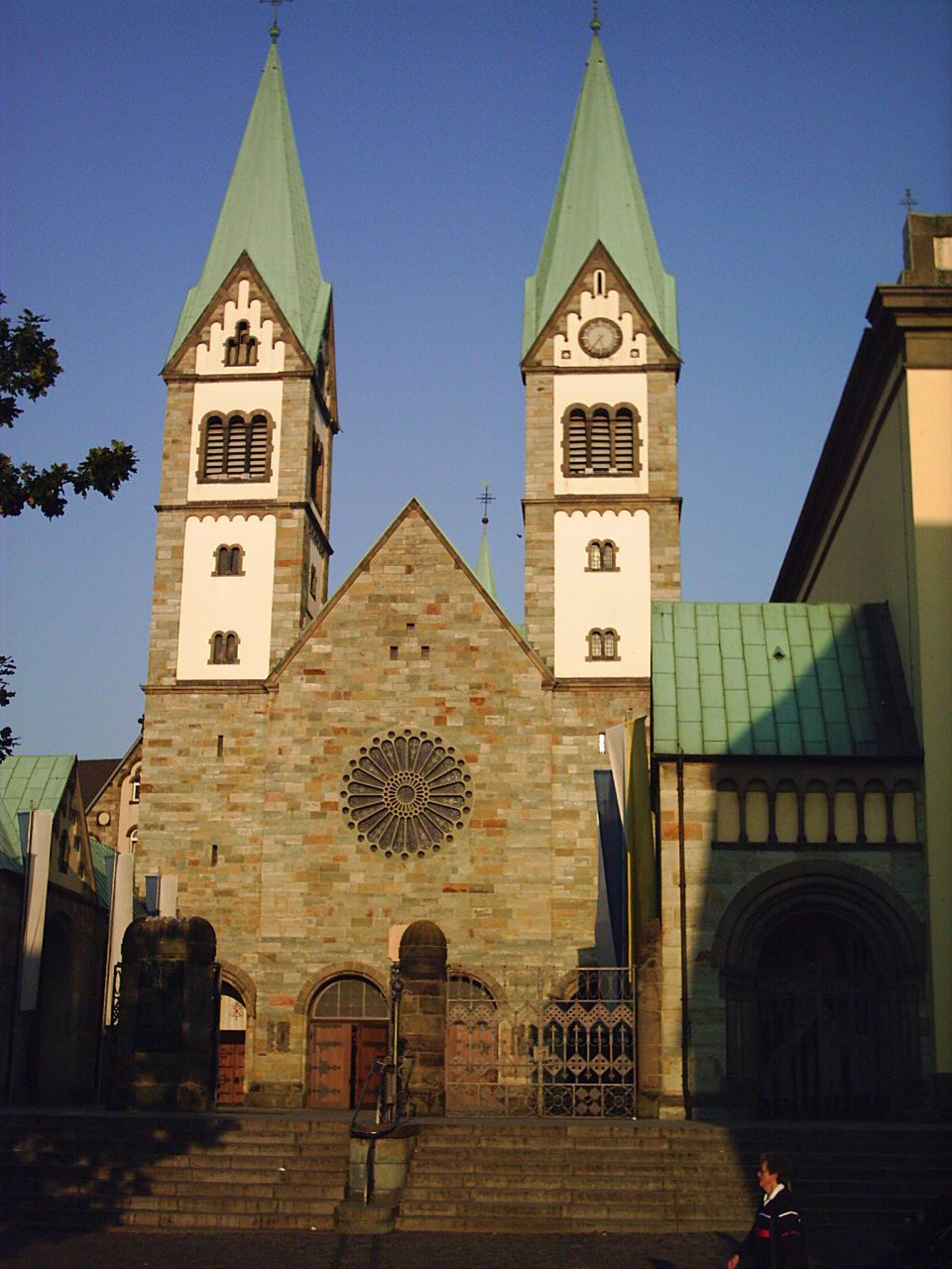 Basilica, Werl, Germany check usage